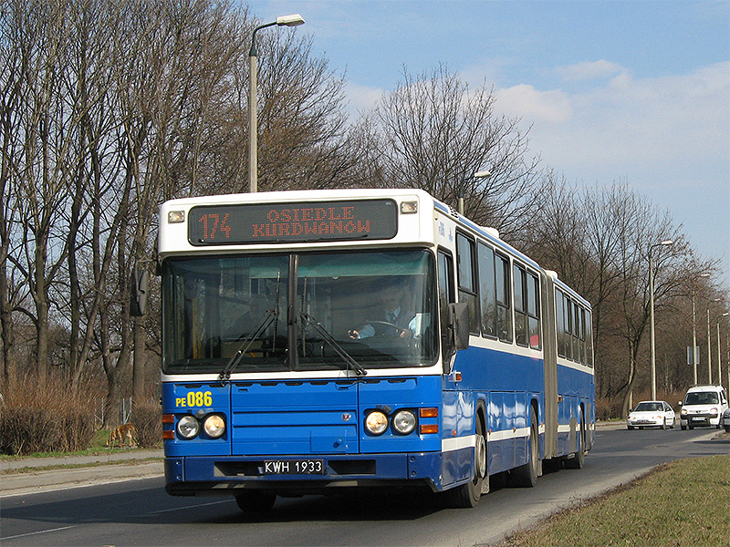 Scania CN113ALB bus (#PE086) in Kraków, Poland. Built 1993, MPK Kraków operator.